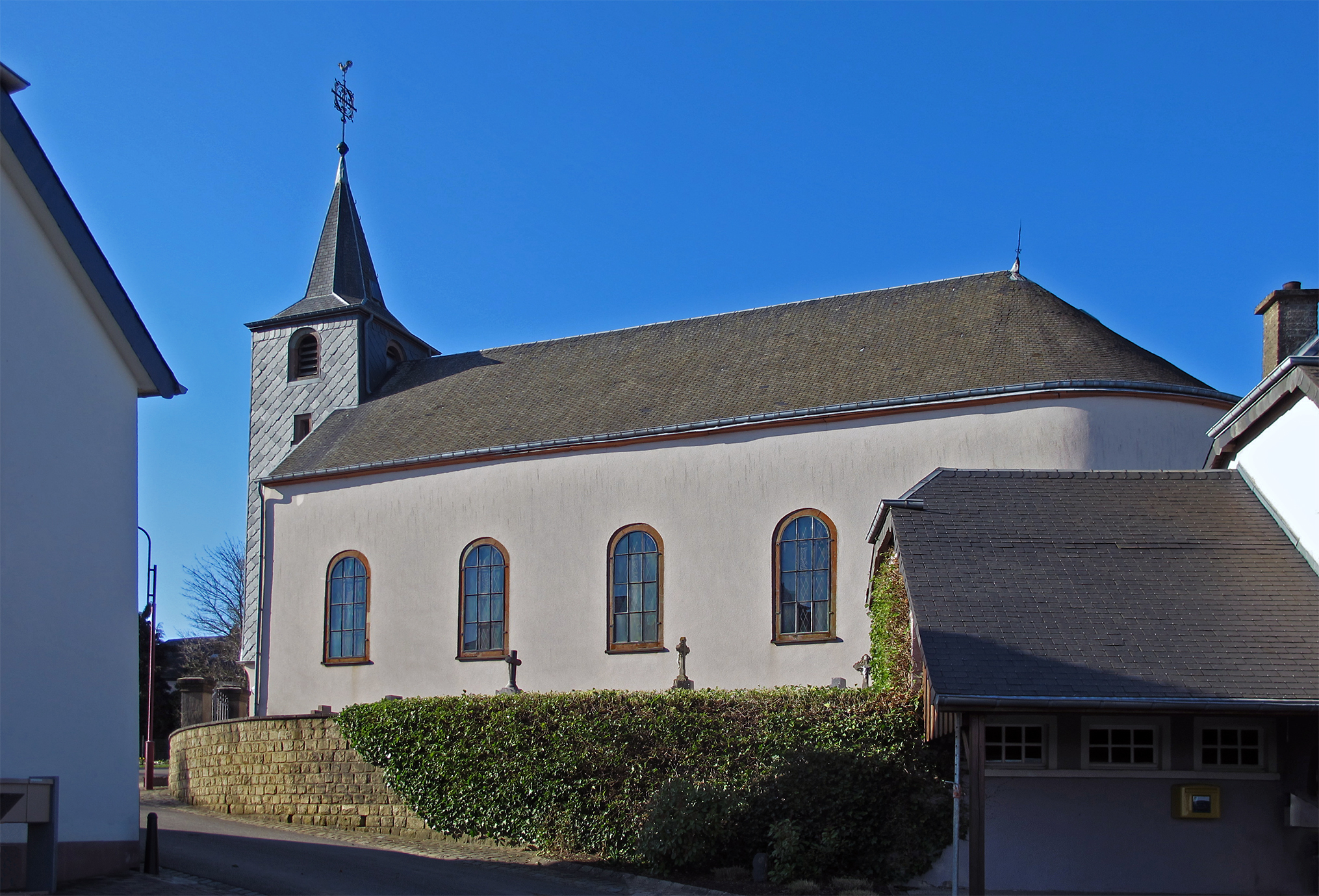 Church in Roodt (Ell), Luxembourg